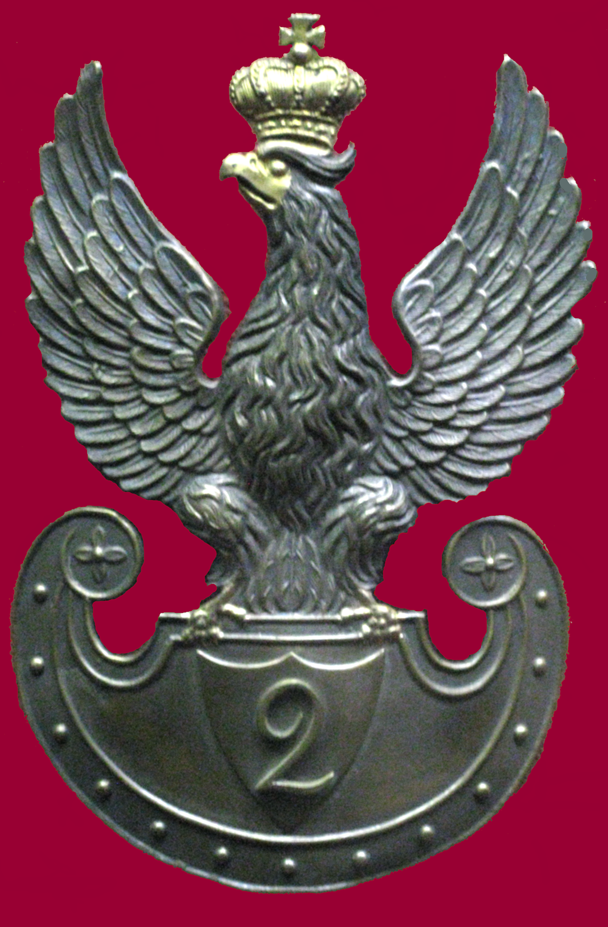 Eagle of officer of 2nd Infantry Regiment of Congress Poland